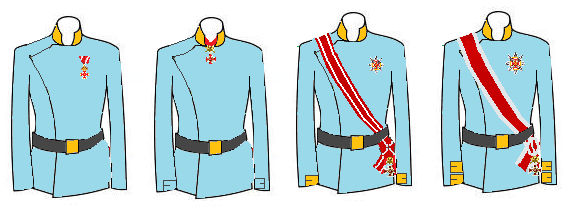 Order of Leopold Austria